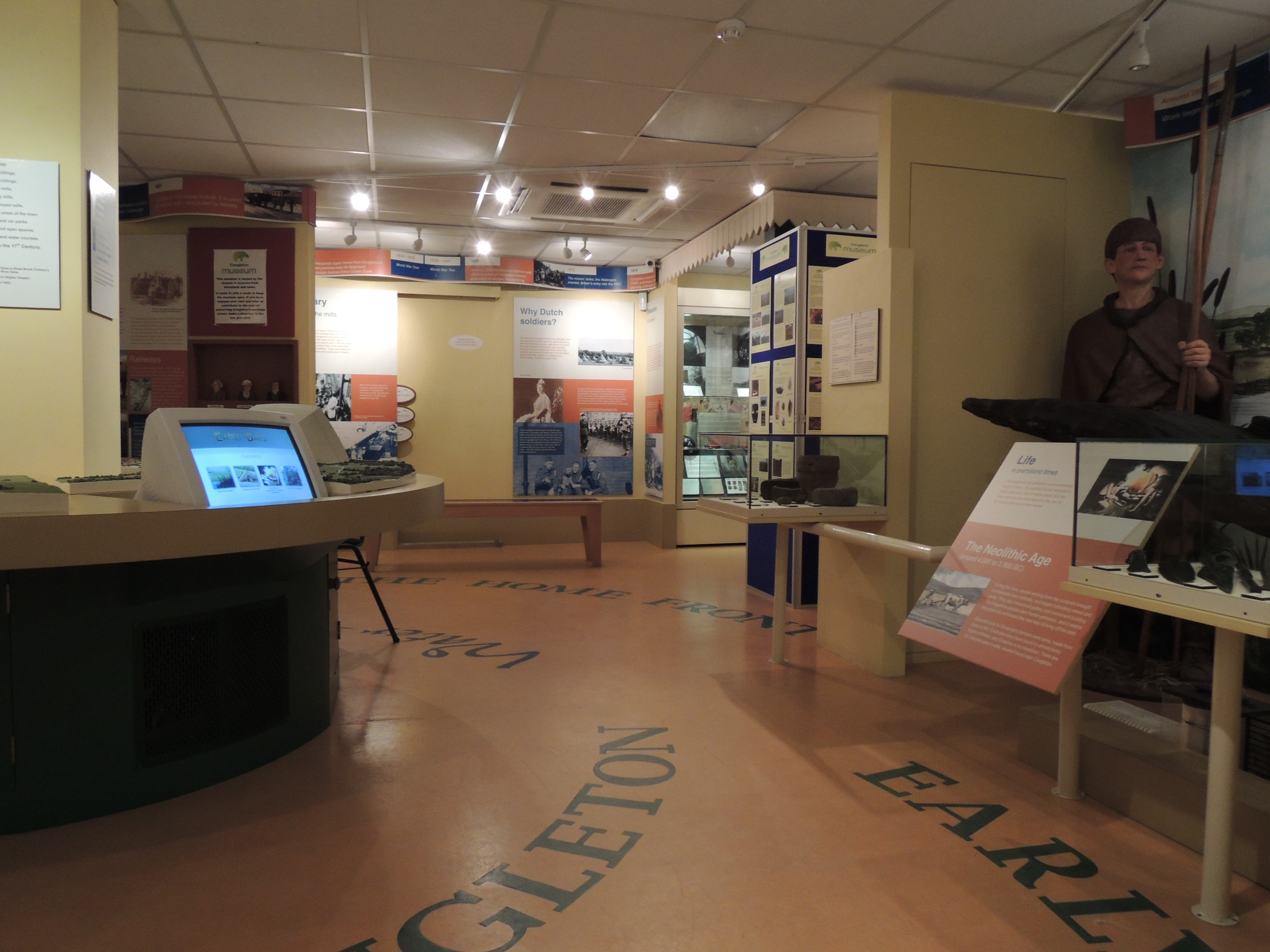 Inside Congleton Museum, Congleton, Cheshire, England, UK